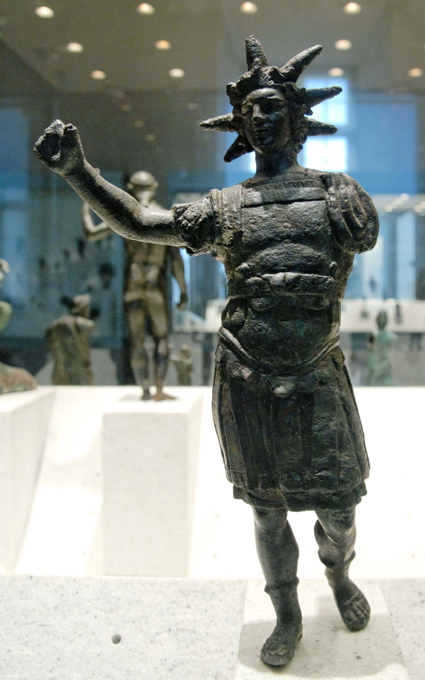 Helios wearing the sun-ray crown and a breastplate, Roman artwork from Lower Egypt.